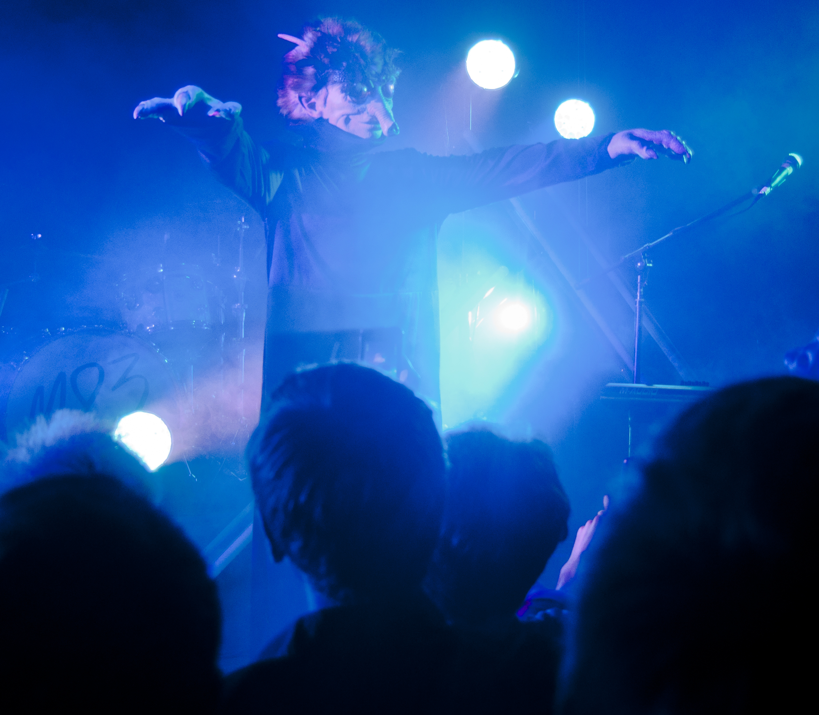 Flickr Tags: May 1 2012 5/1/12 M83 Hurry Up We're Dreaming The Granada Lawrence Kansas KS Concert Tour Electronic Dance Creature Monster Mask Alien Arms Outstretched Three Fingers Blue Pink.